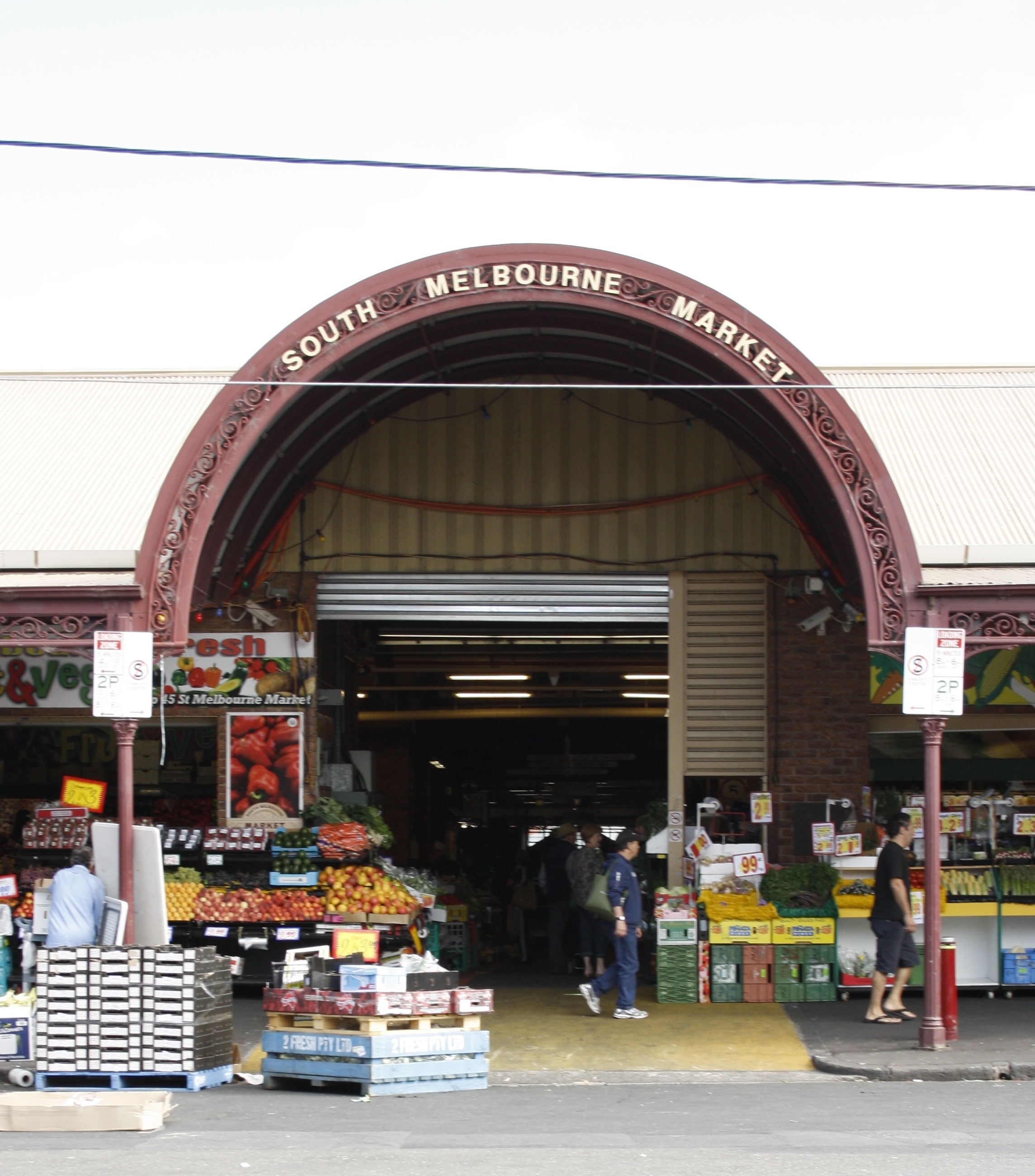 Outside South Melbourne market